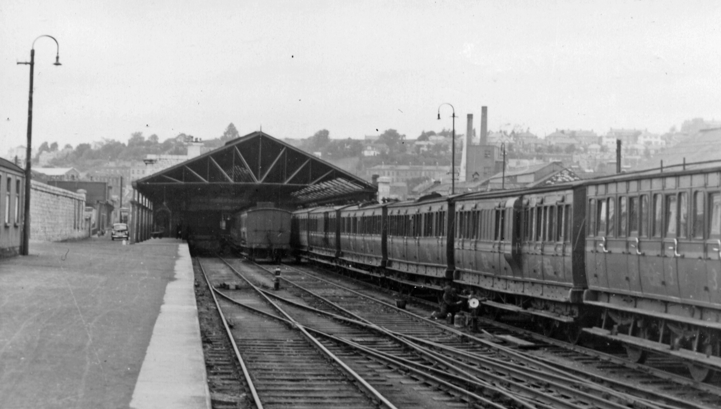 Cork, Albert Quay station; Cork, Bandon & South Coast Railway, 1948View to buffer-stops of the station in its 'active' days; it closed to passengers 1/4/61, to goods 15/7/67. (Cf. W6871 : Cork Albert Quay goods yard - 1975)